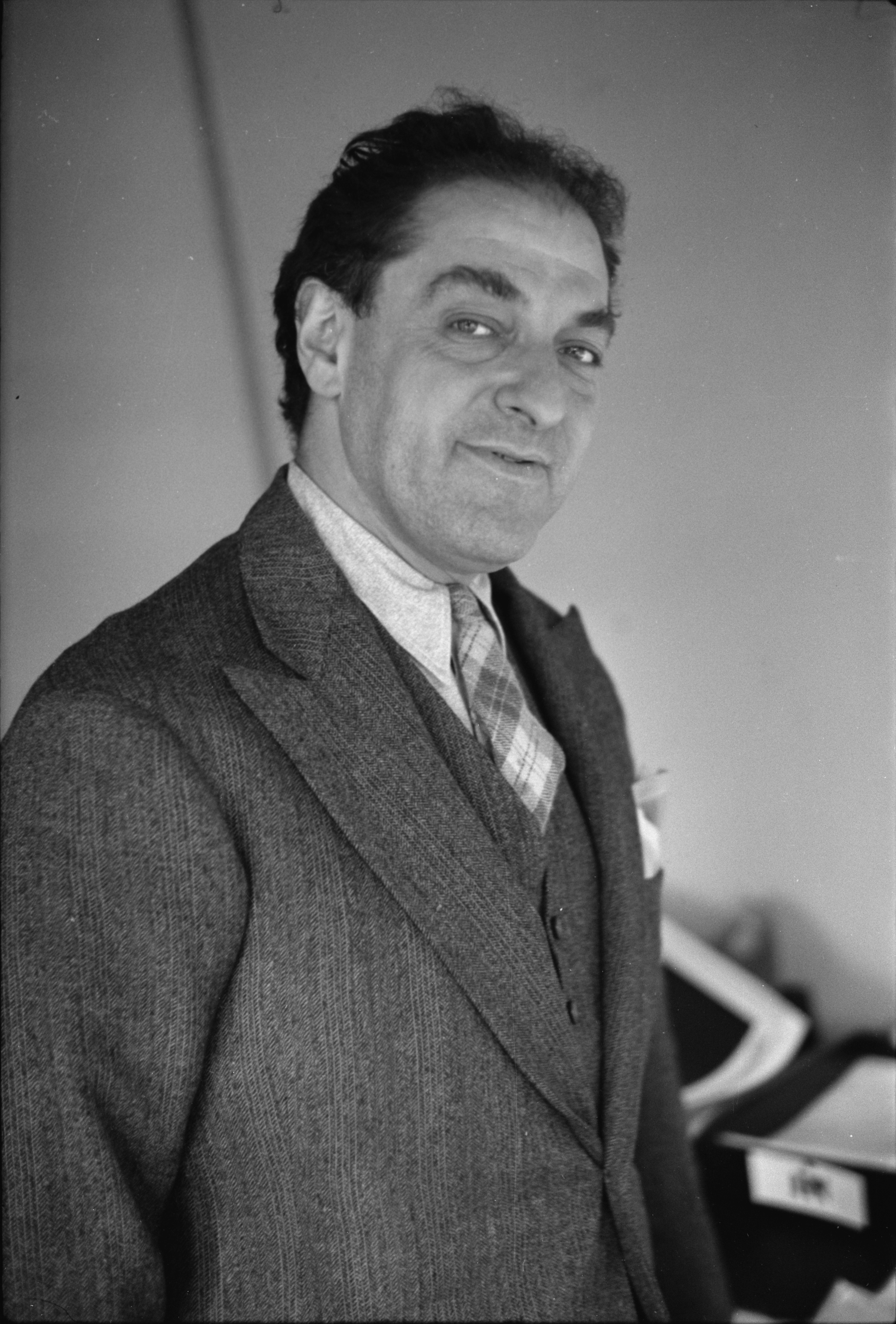 Albert Mayer, Washington, D.C., Principal Architect of Bound Brook, New Jersey, project